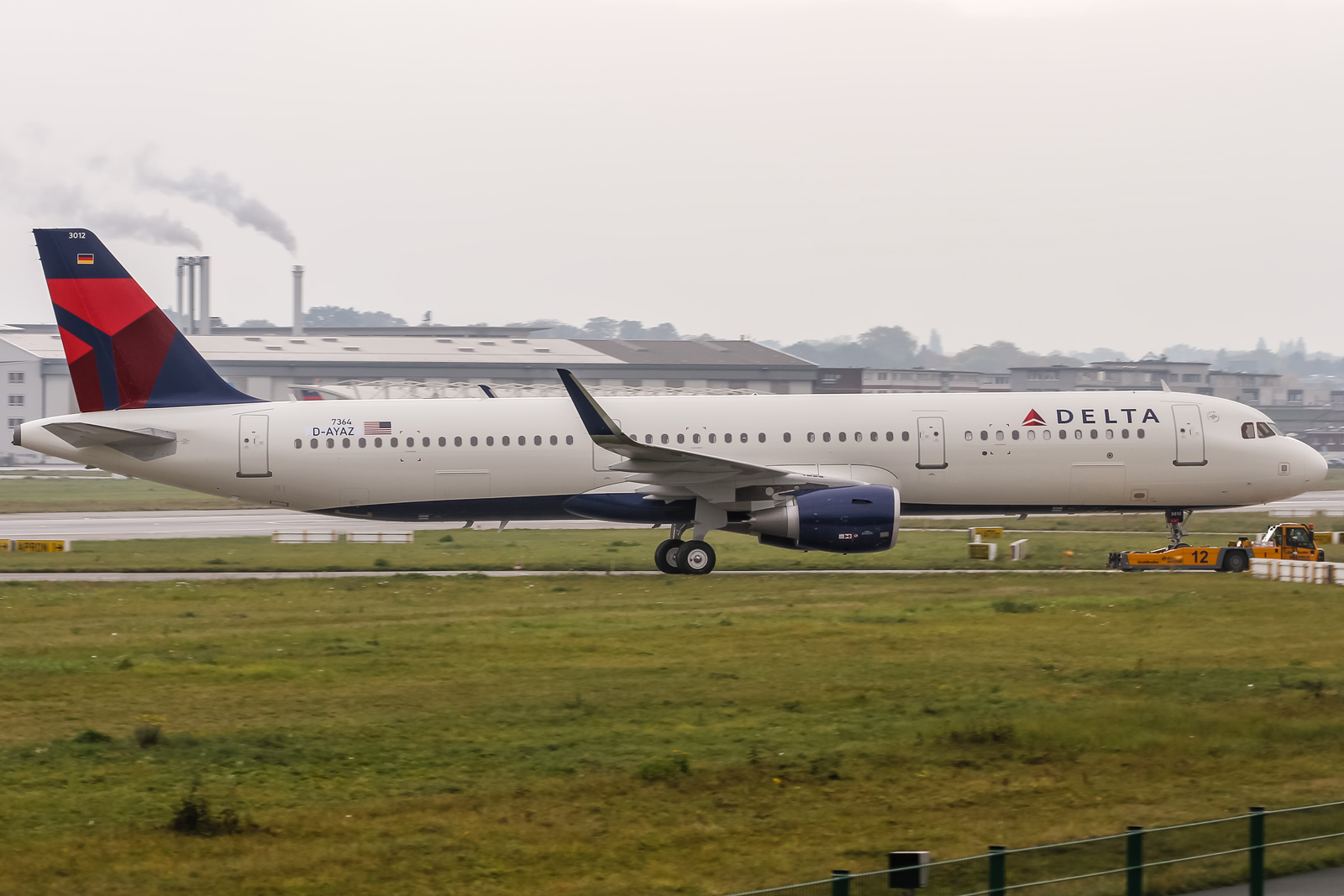 D-AYAZ - N312DN (MSN 7364 Airbus A321-211SL with Sharklets for Delta Air Lines @ Airbus factory Hamburg Finkenwerder (EDHI/XFW)